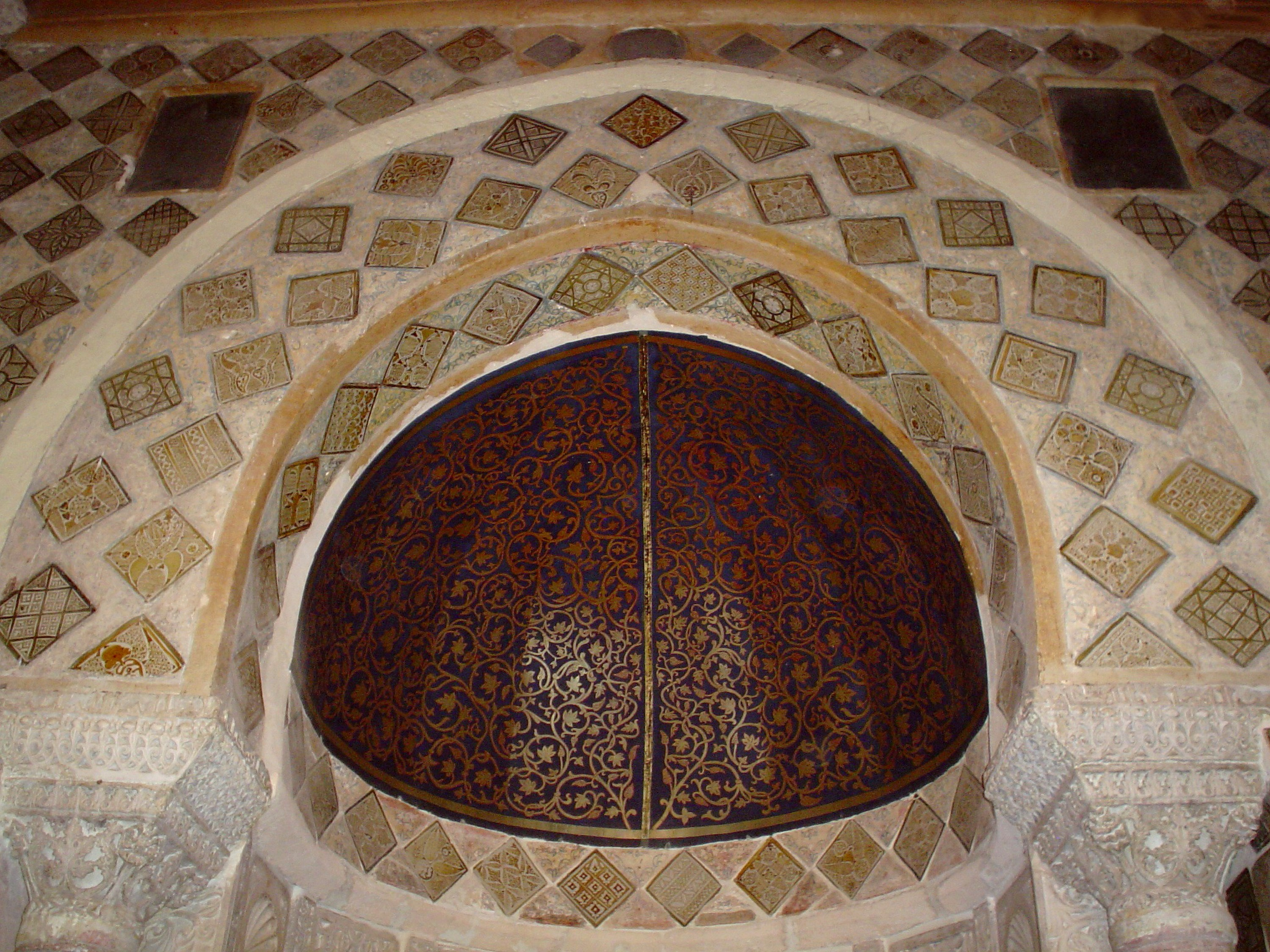 Oqba Ibn Nafi Mosque, Kairouan, Tunisia.